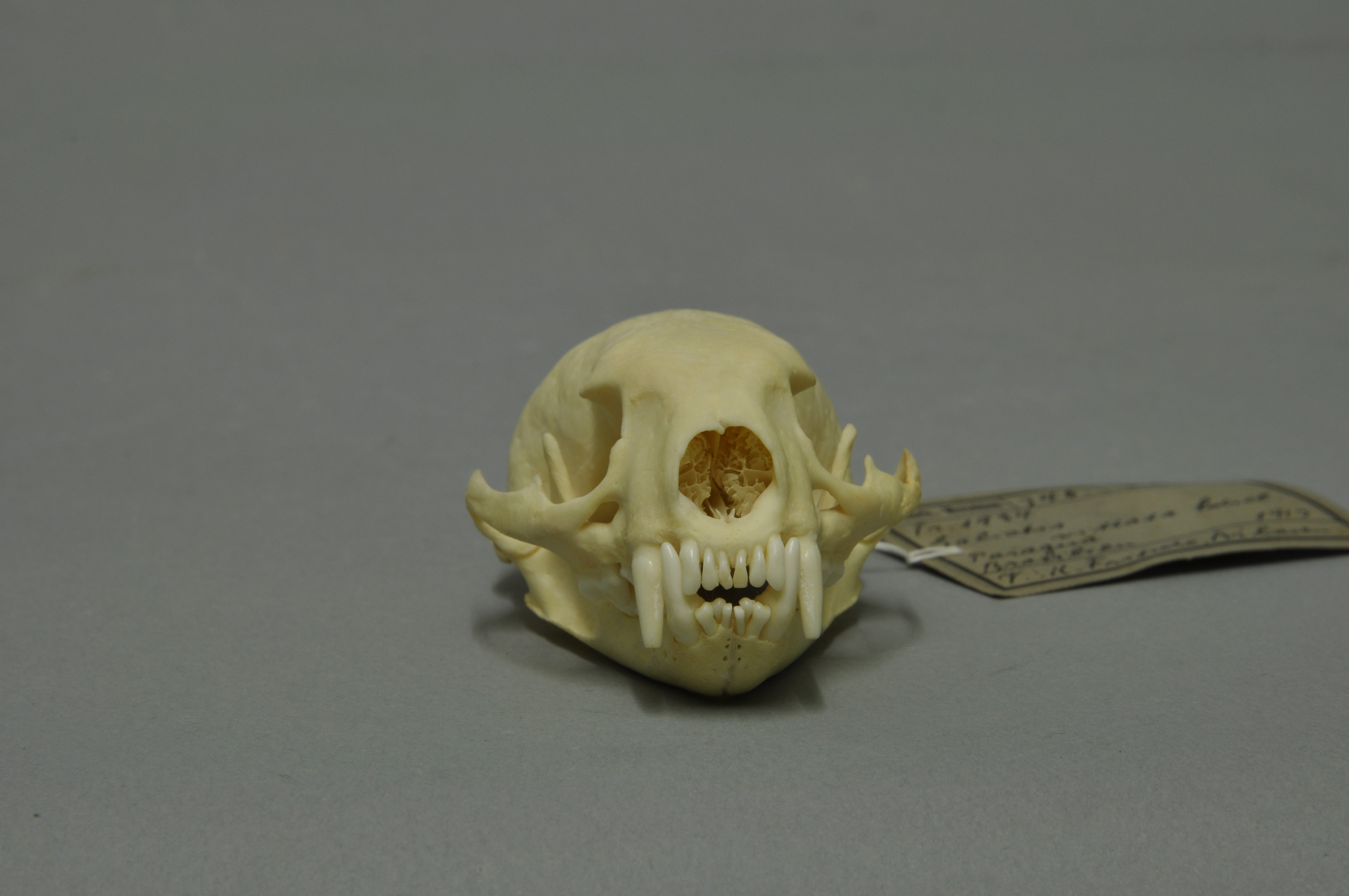 Greater grison Galictis vittata, skull, Coll. Museum Wiesbaden